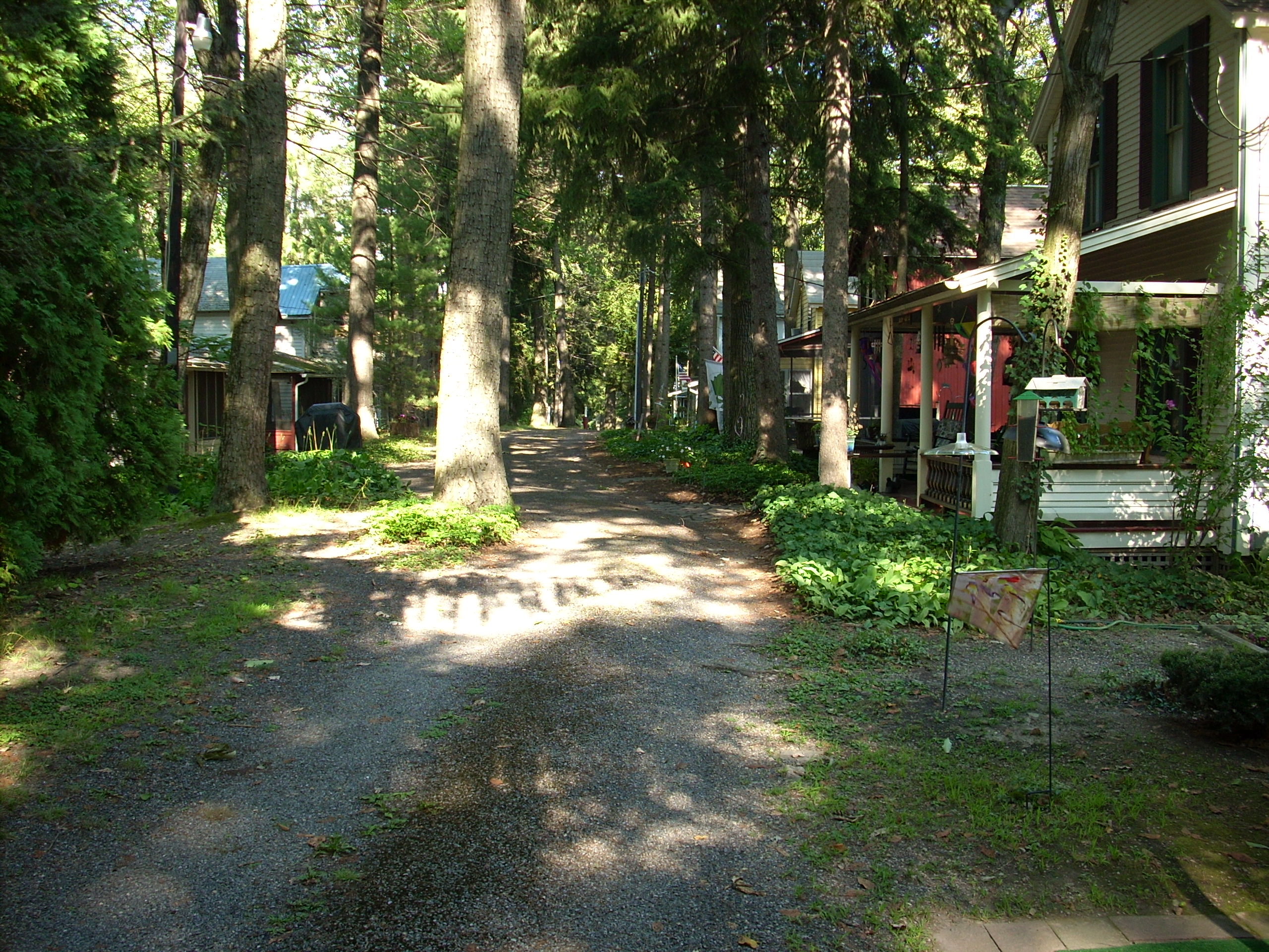 Cottages along the Ridge at Central Oak Heights in West Milton, Pennsylvania